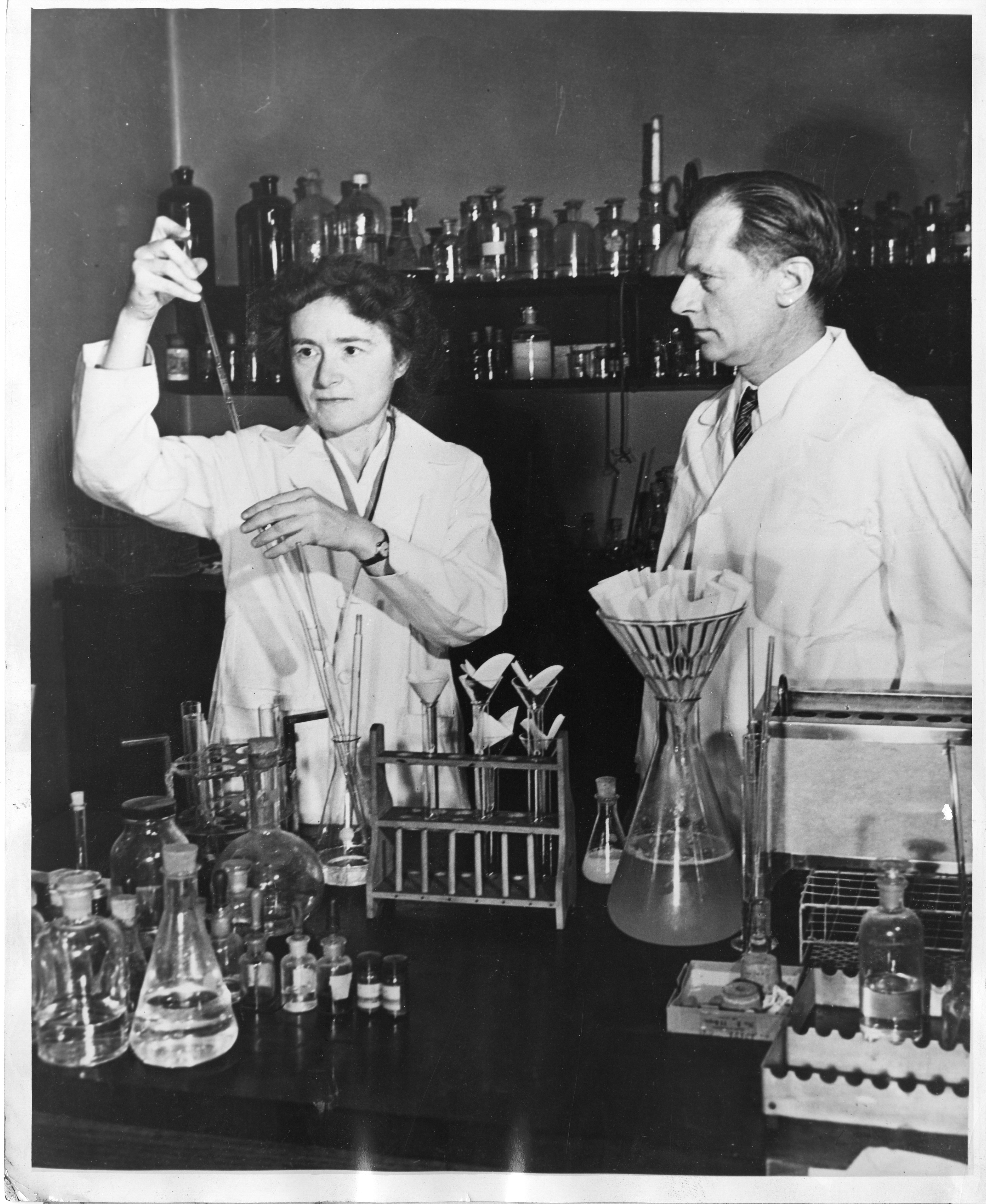 Description: Biochemist Gerty Theresa Radnitz Cori (1896-1957) and her husband Carl Ferdinand Cori (1896-1984) were jointly awarded the Nobel Prize in medicine in 1947 for their work on how the human body metabolizes sugar. Creator/Photographer: Unidentified photographer Medium: Black and white photographic print Date: 1947 Persistent URL: Repository: Smithsonian Institution Archives Collection: Accession 90-105: Science Service Records, 1920s – 1970s - Science Service, now the Society for Science & the Public, was a news organization founded in 1921 to promote the dissemination of scientific and technical information. Although initially intended as a news service, Science Service produced an extensive array of news features, radio programs, motion pictures, phonograph records, and demonstration kits and it also engaged in various educational, translation, and research activities. Accession number: SIA2008-1291